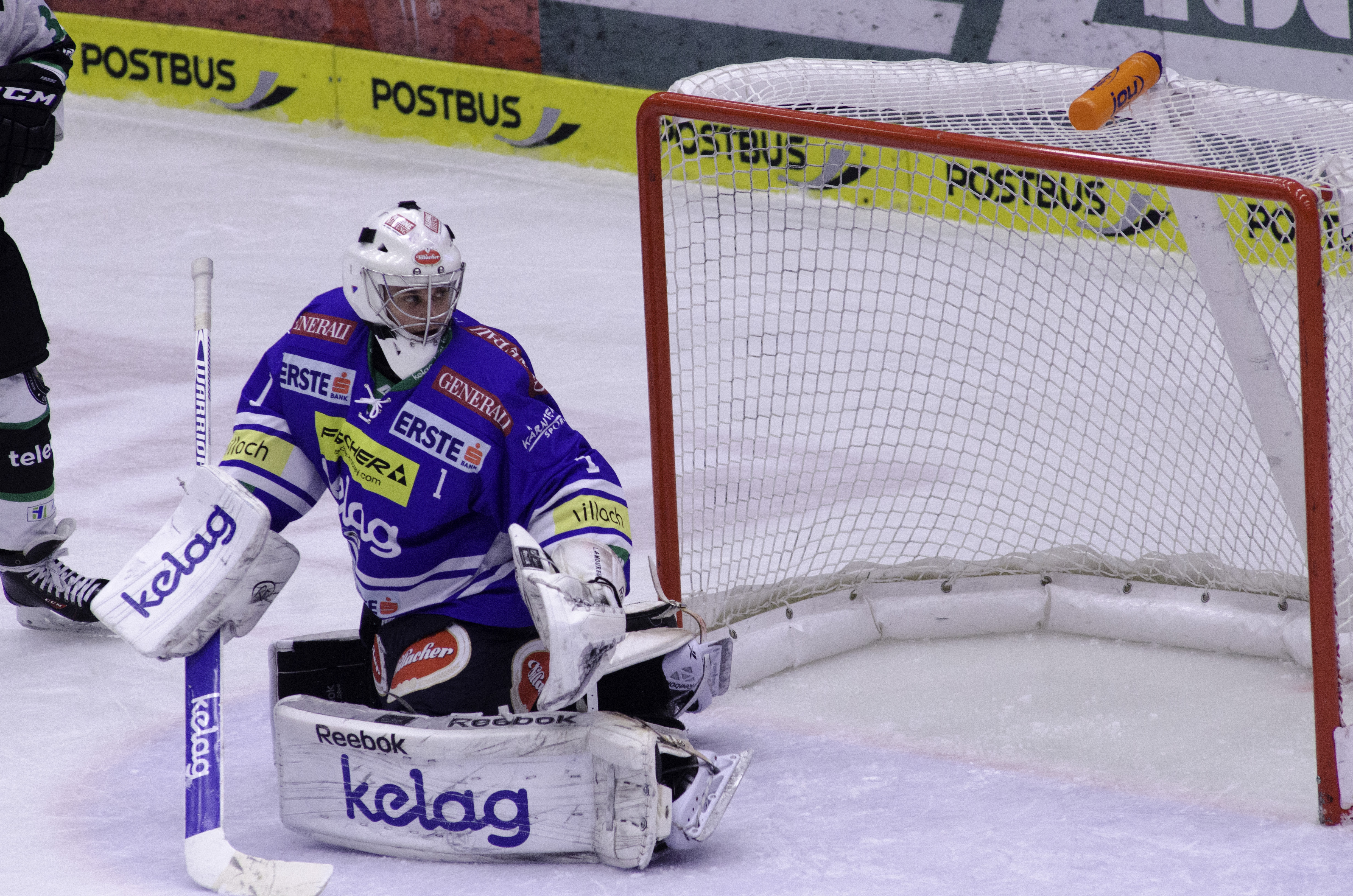 frostworx-micheu130928 (80 von 97)